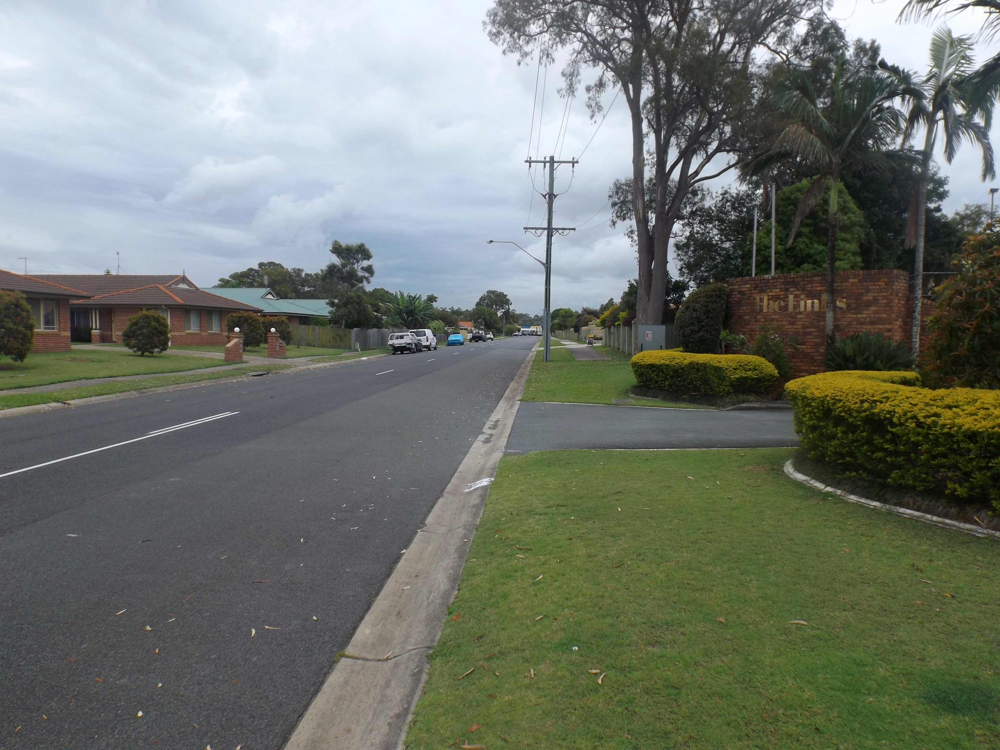 Photo of Soorley Street in Tweed Heads South, New South Wales, Australia. Entrance to The Links, part of the Tweed Heads Golf Course is visible on the right.